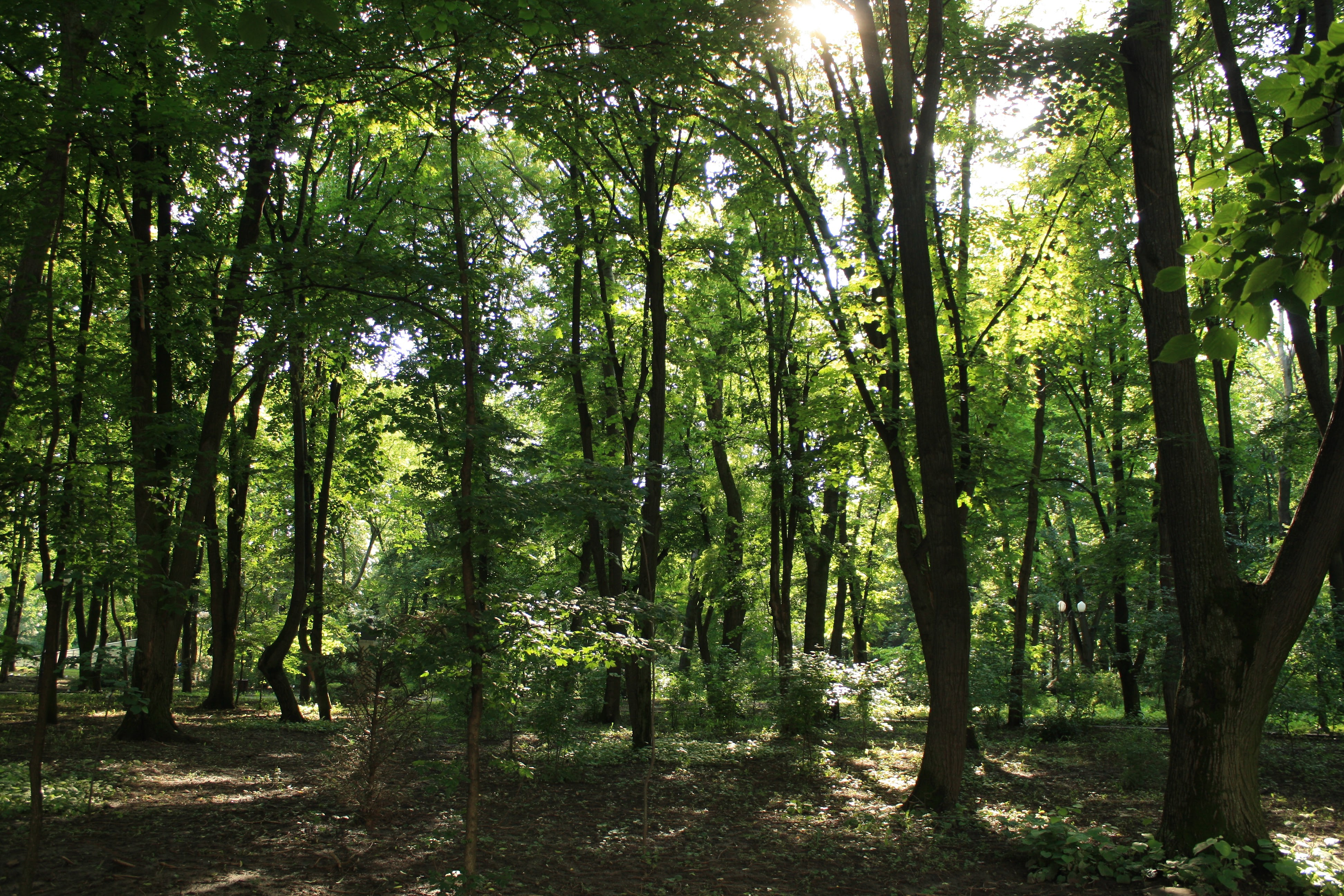 Parcul Copou (perspectivă cu arbori)